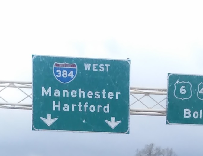 Interstate 384 shortly before it starts in Bolton, Connecticut